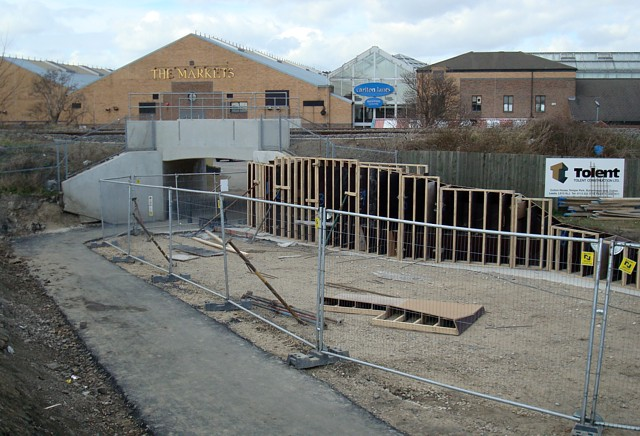 Tickle Cock Bridge in Castleford, England, ready to be landscaped.